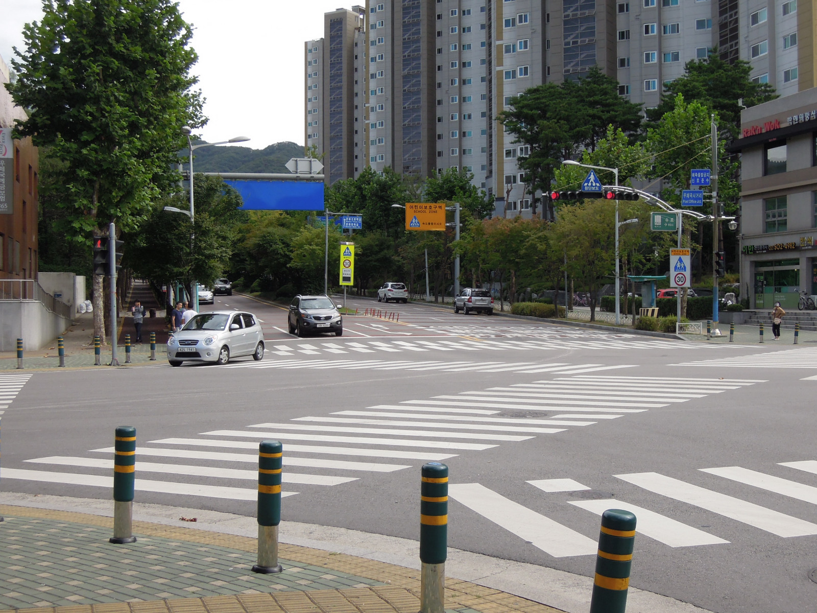 Gwacheon, residential area